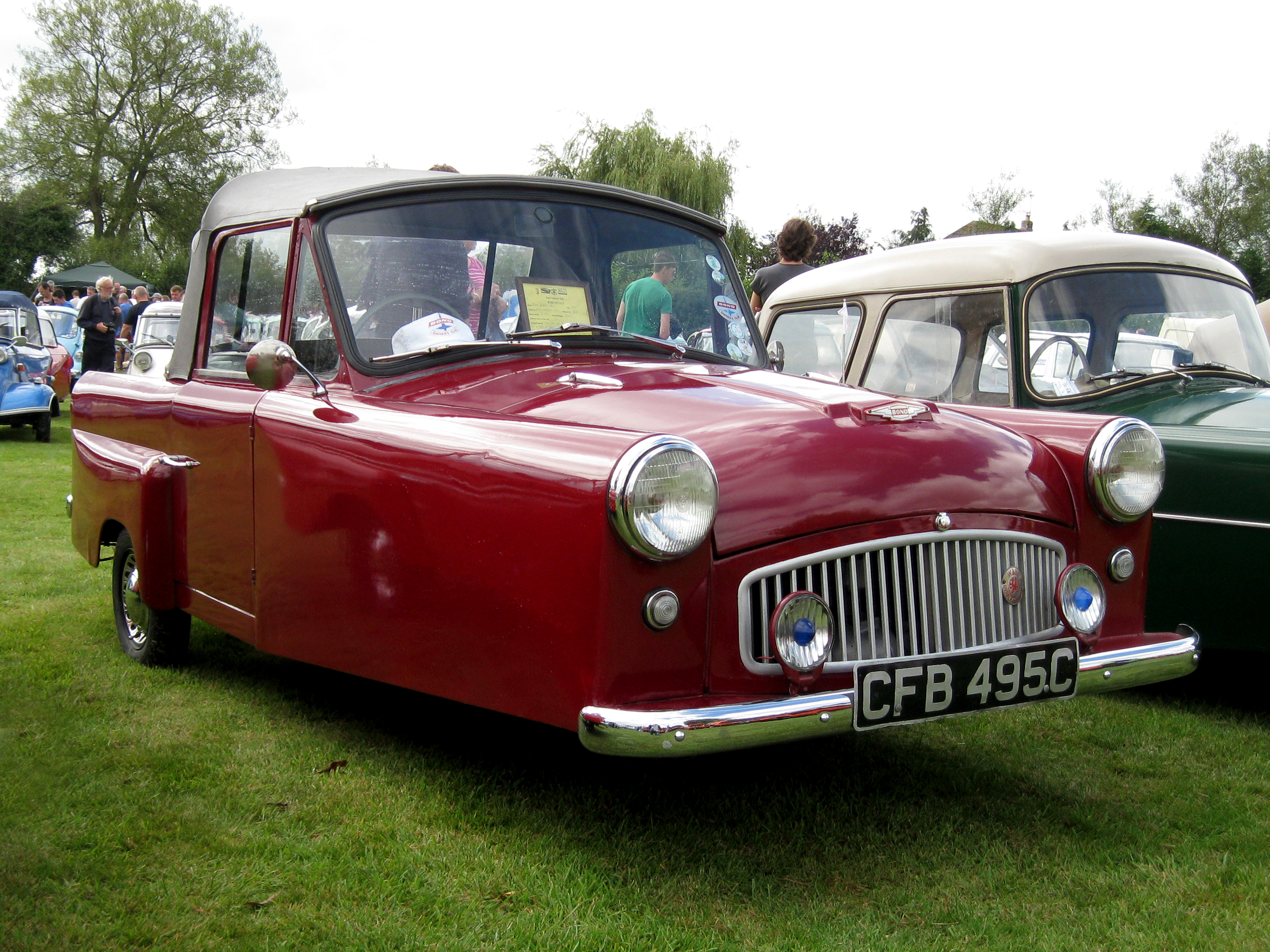 This is the first Bond Minicar Mark G Tourer, which was produced in October 1964, on show at the 2011 National Microcar Rally, at the Atwell Wilson Motor Museum, Calne, Wiltshire.